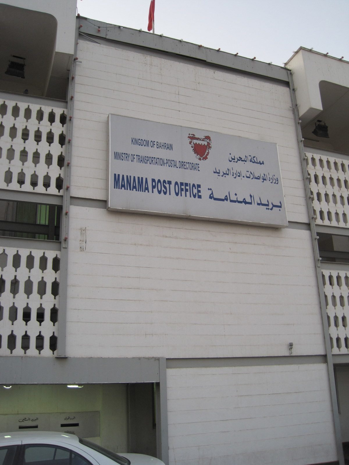 (cc) Shashi Bellamkonda credit as above if using this pictur